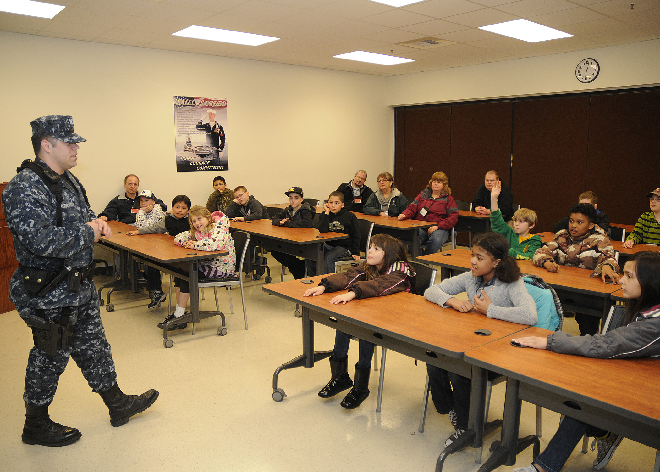 OAK HARBOR, Wash. (March 30, 2011) Master-at-Arms 2nd Class Cody Abernathy, assigned to Naval Air Station Whidbey Island base security, answers questions from children of active duty Sailors before giving a tour of the security building during the Kids Camp Deployment. Kids Camp Deployment, sponsored by the Fleet and Family Support Center and the Child and Youth Program, is designed to give military children a chance to experience what life is like when their parents go on a deployment. The children participated in a boot camp-like setting with demonstrations and tours of various commands. (U.S. Navy photo by Mass Communication Specialist 2nd Class Nardel Gervacio/Released)